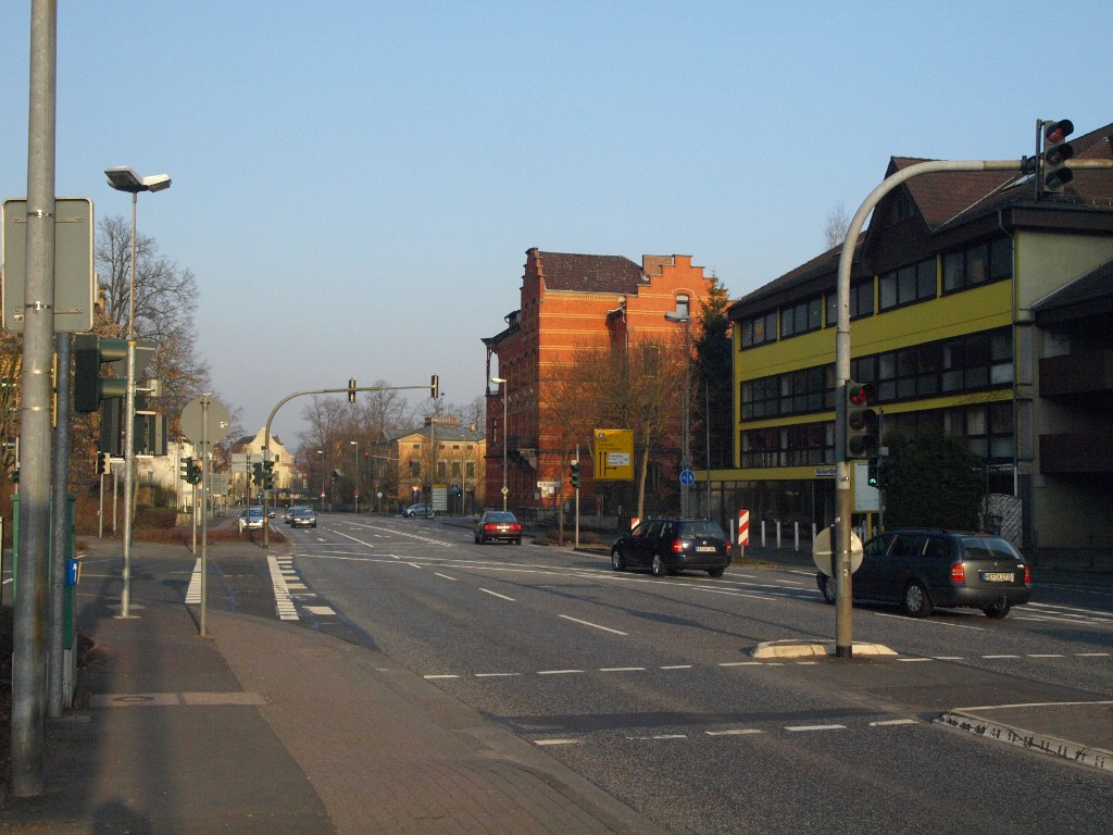 Hainstraße (Hain street) in Bad Hersfeld. Part of ring road which leads around the historic center.